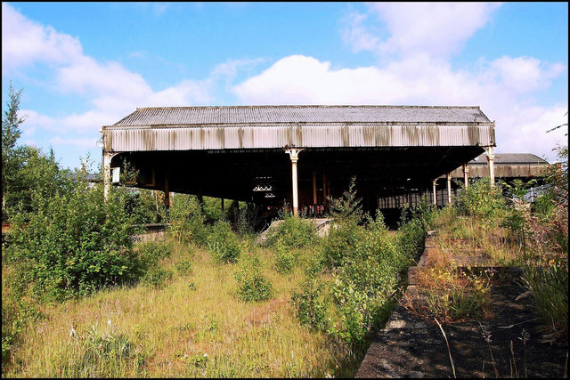 Manchester Mayfield station closed 1960's